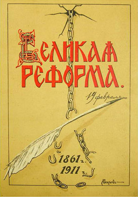 The Great Reform, variant of book's cover